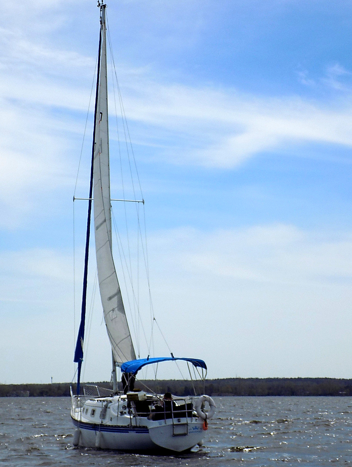 A Hunter 27 sailboat.